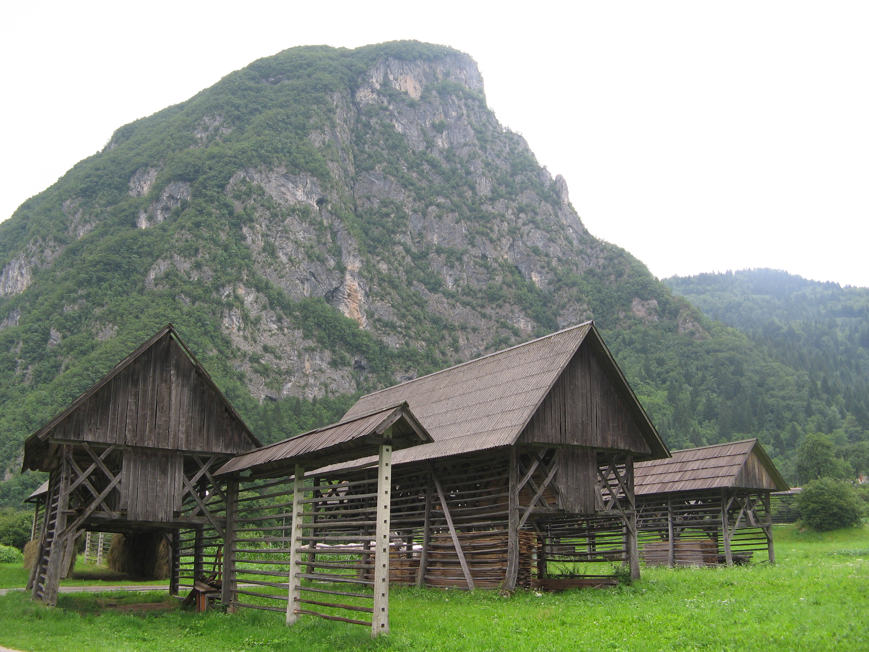 Hayracks outside the village of Studor in Bohinj, Slovenia, with Studor hill in the background